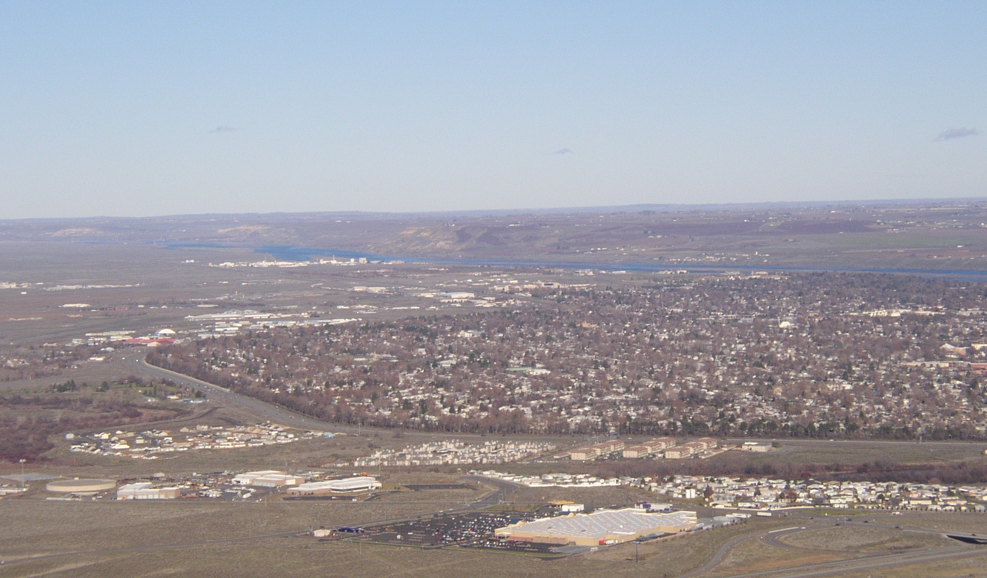 Richland, Washington as seen from the Badger Mountain Centennial Preserve, Richland center lies to the right. Upriver toward the top of the picture lies the Hanford 300 Area. The 1.2-mile long, 800-foot in elevation trail on Badger Mountain is a new reserve within the city boundary or Growth Management Area for Richland. It was built by Volunteers who broke new trail by hand in October 2005. Community members from Richland and the surrounding area secured protection for this important area above the Tri-Cities. The Friends of Badger Mountain acquired the property, preserving it for the public. The Trust for Public Land, Benton County, the City of Richland and the Friends of Badger Mountain worked together to buy 574 acres to create the Badger Mountain Centennial Preserve, to be maintained in its natural state.